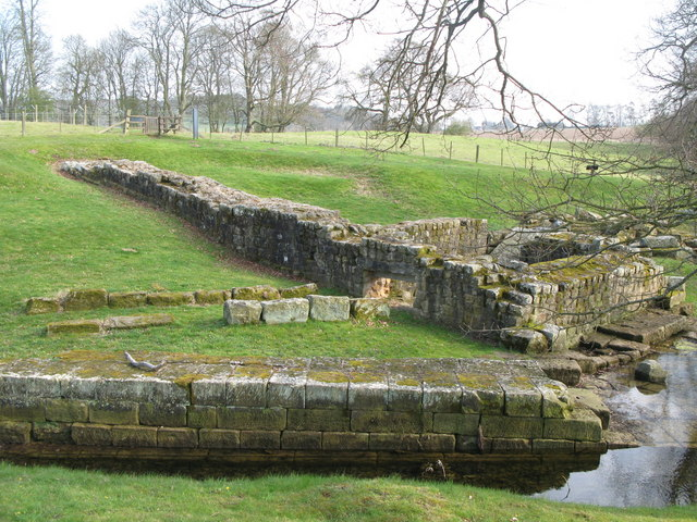 Hadrian's Wall and Chesters bridge abutment (2), near to Low Brunton, Northumberland, Great Britain.